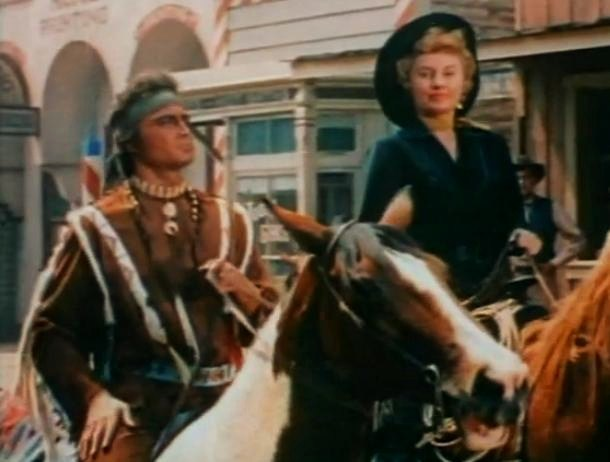 Lance Fuller & Barbara Stanwyck in Cattle Queen of Montana - trailer (cropped screenshot)